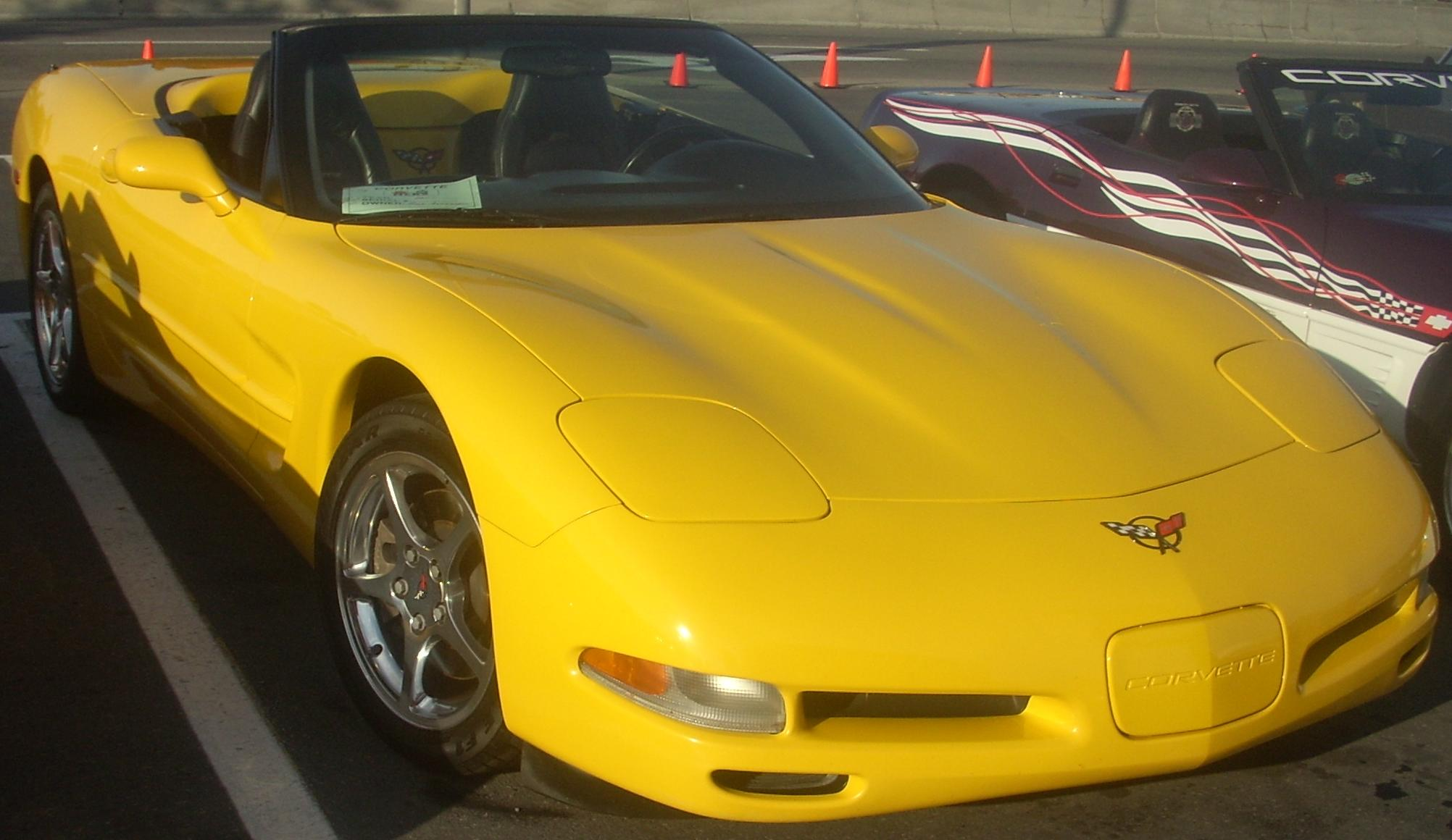 2002 Chevrolet Corvette photographed in Montreal, Quebec, Canada at Gibeau Orange Julep.